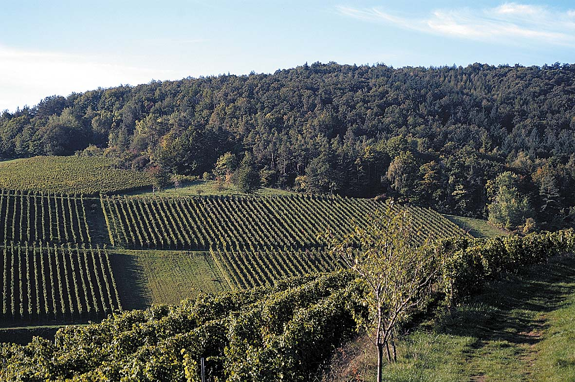 Location Mandelberg, Top Location for pinot planc, Limestone